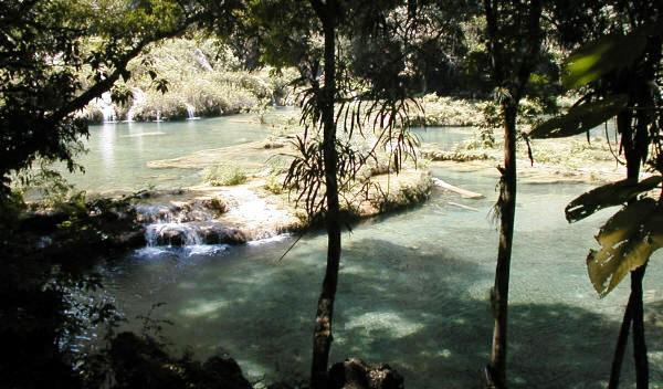 Semuc Champey pools in the Cahabon river, Guatemala